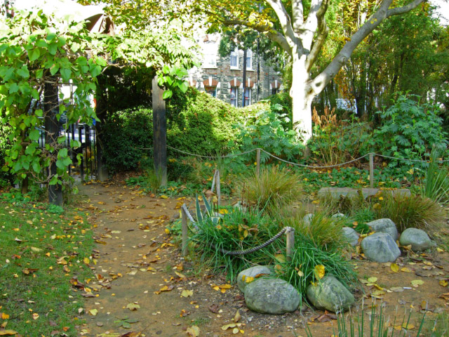 Bonnington Square Garden, Vauxhall This small garden has been established on a Second World War bomb site; the story is told here: .